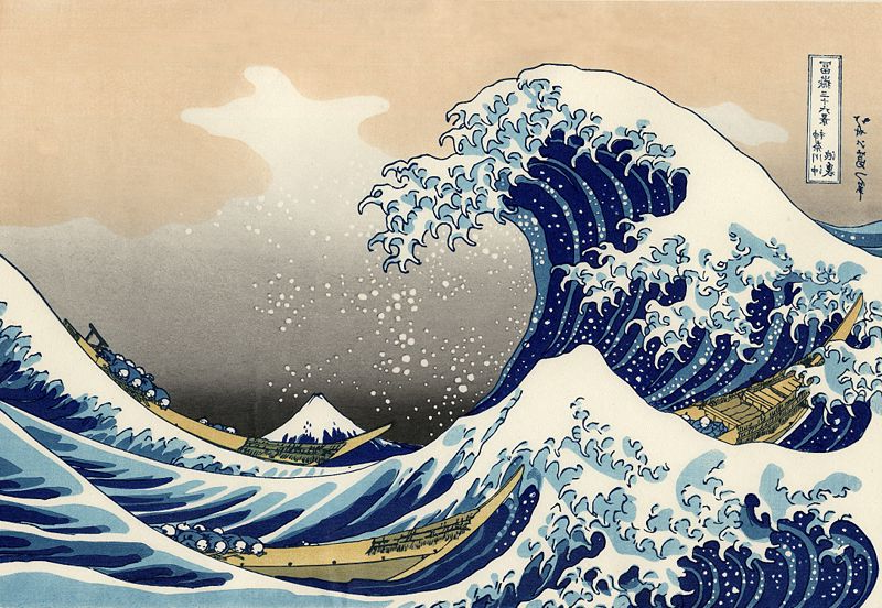 Mirror-reversed version of Hokusai's "The Great Wave off Kanagawa", to illustrate the difference made by the direction in which one "reads" it.